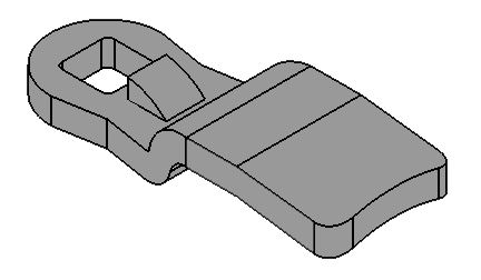 Offset cam for a cam lock.